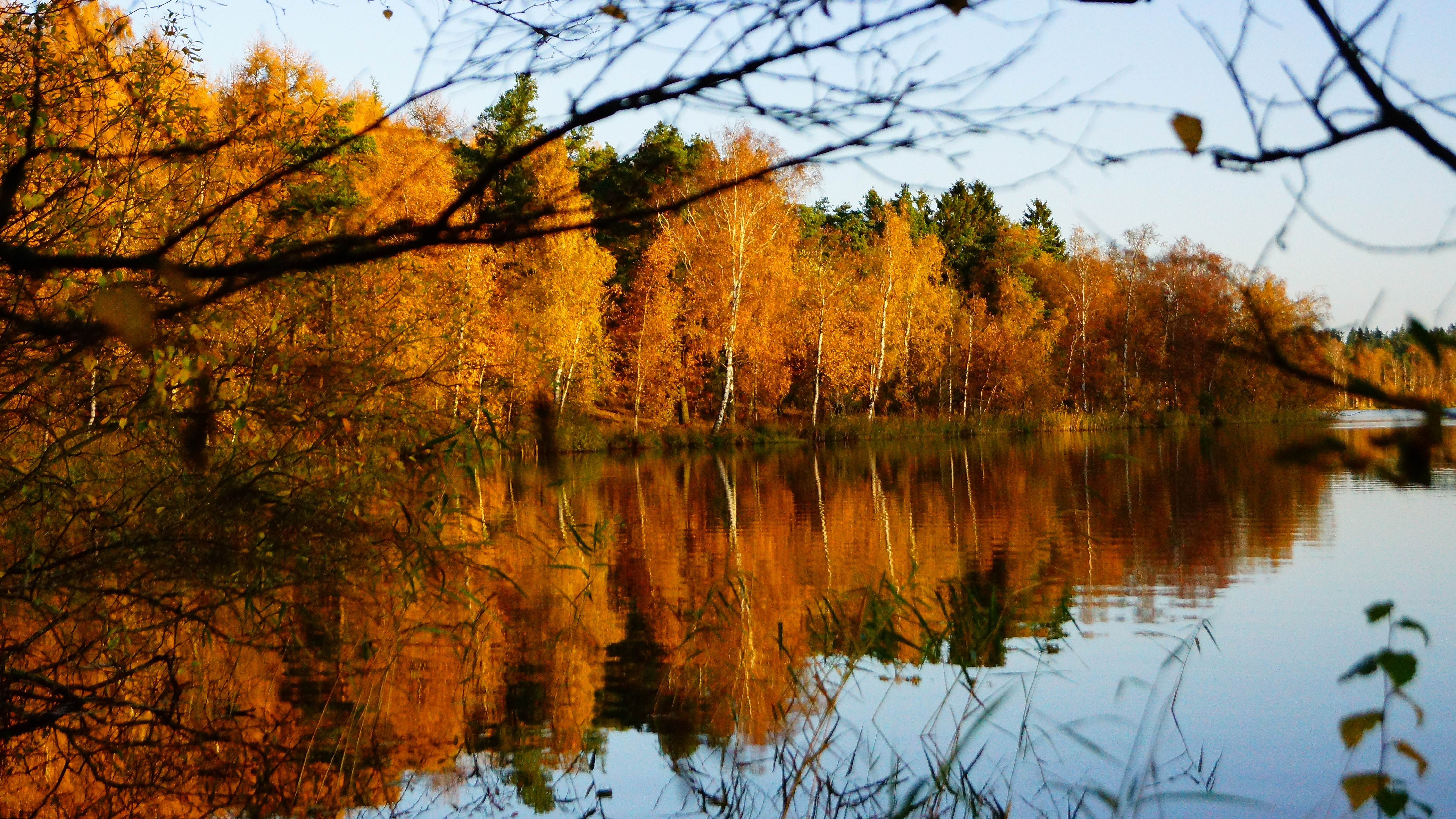 Autumn scene from Øjesø (